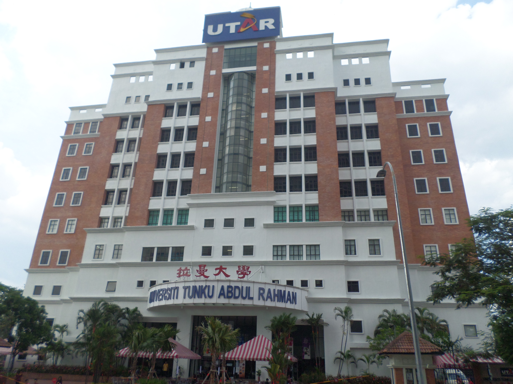 Tunku Abdul Rahman University, Bandar Sungai Long, Kajang, Hulu Langat, Selangor, Malaysia